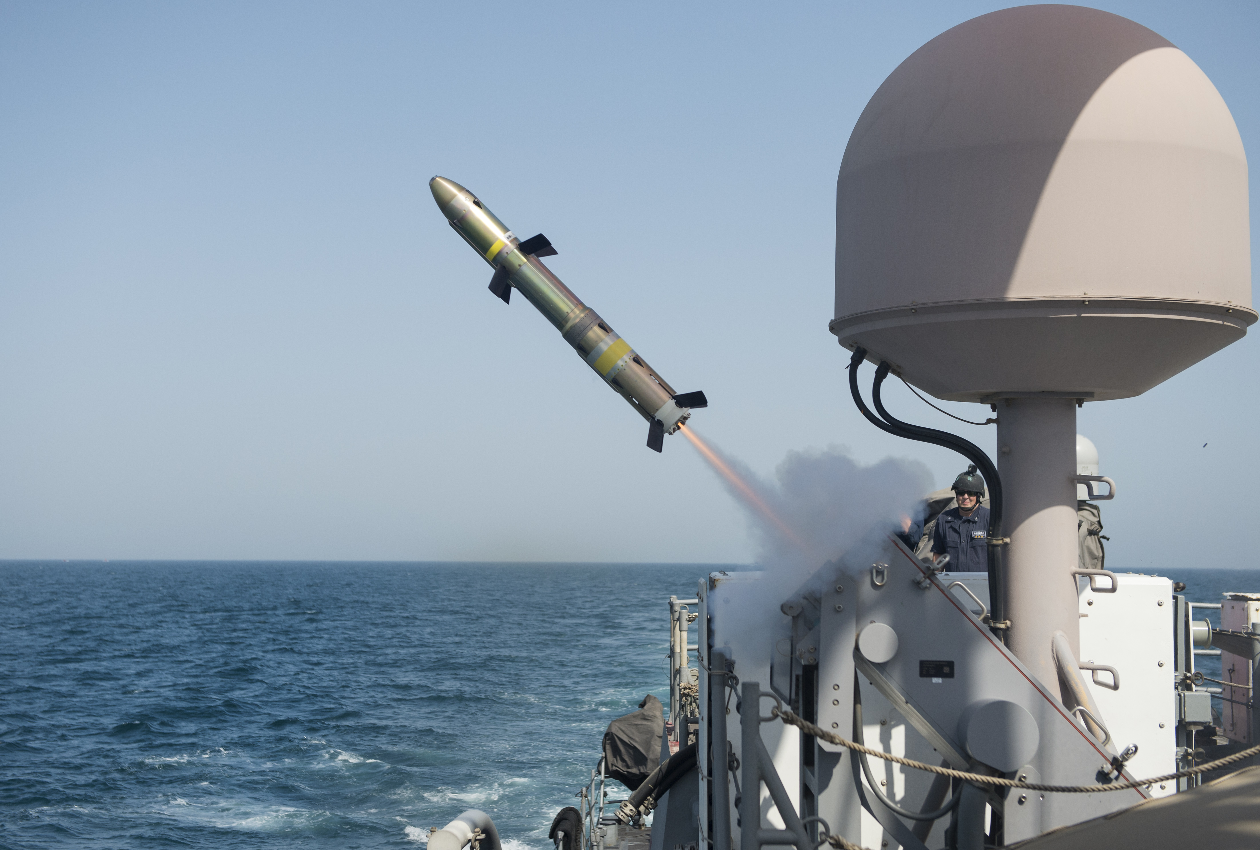 The U.S. Navy coastal patrol ship USS Firebolt (PC-10) fires a BGM-176B Griffin missile during a test and proficiency fire in the Arabian Gulf. Firebolt, assigned to Commander, Task Force (CTF) 55, was supporting maritime security operations and theatre security cooperation efforts in the U.S. 5th Fleet area of operations.